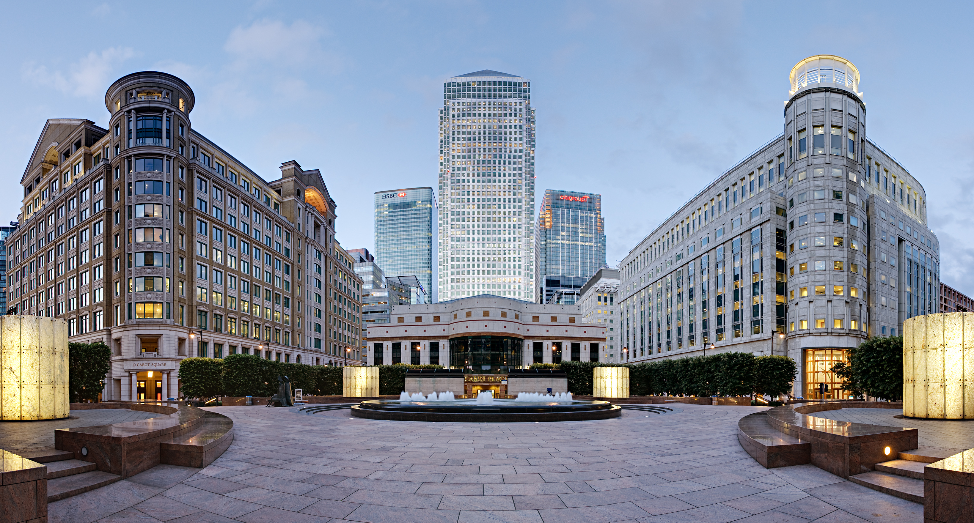 A 6 (2x3) segment panoramic view of the three tallest skyscrapers in Canary Wharf, London, as viewed from Cabot Square. Taken by myself with a Canon 5D and 17-40mm lens at 22mm, and stitched with PTGui (mercator projection).